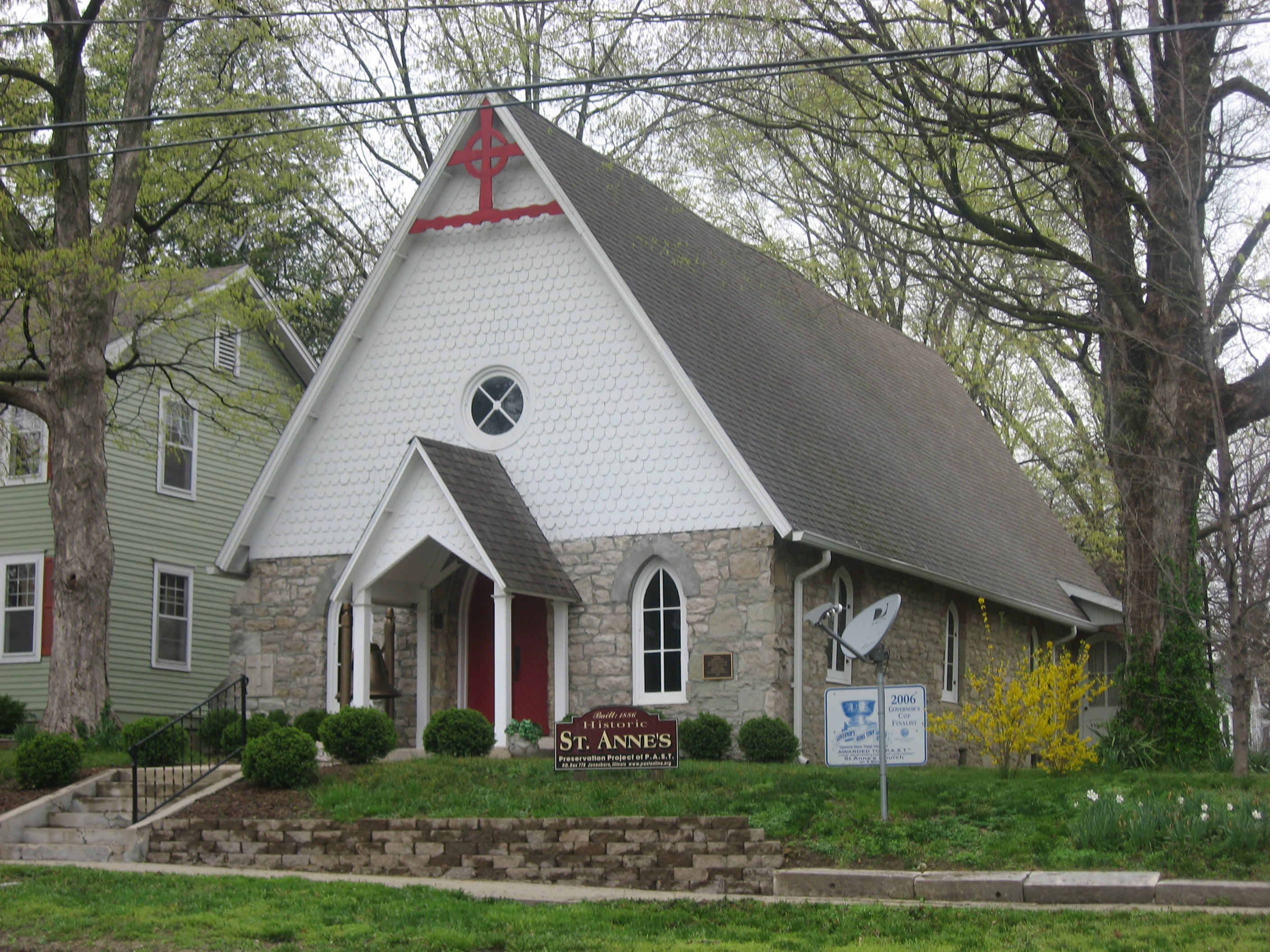 Front and eastern side of St. Anne's Episcopal Church, located at 507 S. Main Street (Illinois Route 146) in Anna, Illinois, United States. Built in 1886, it is listed on the National Register of Historic Places.